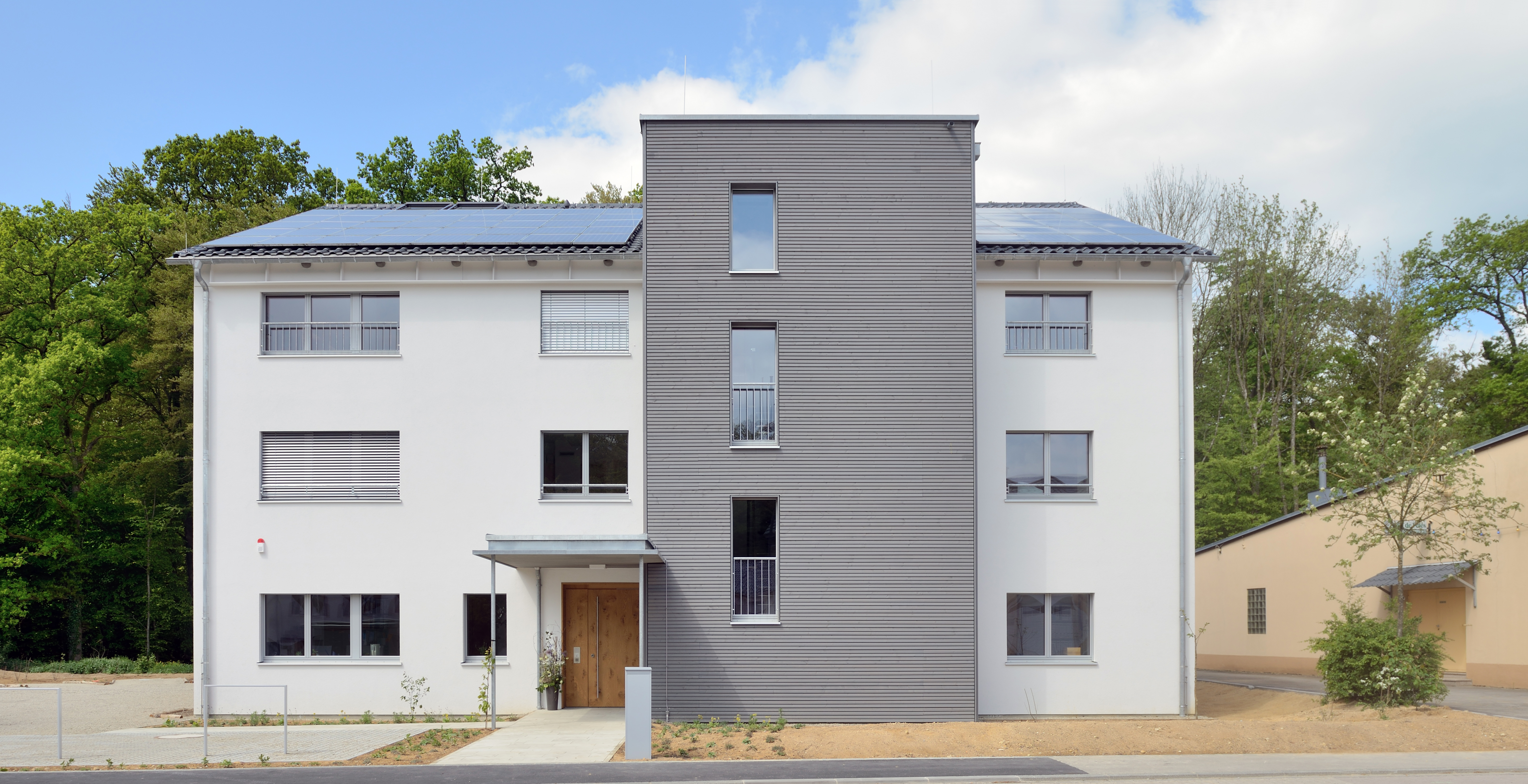 SICONA Center in Olm (Luxembourg), 2, rue de Nospelt.